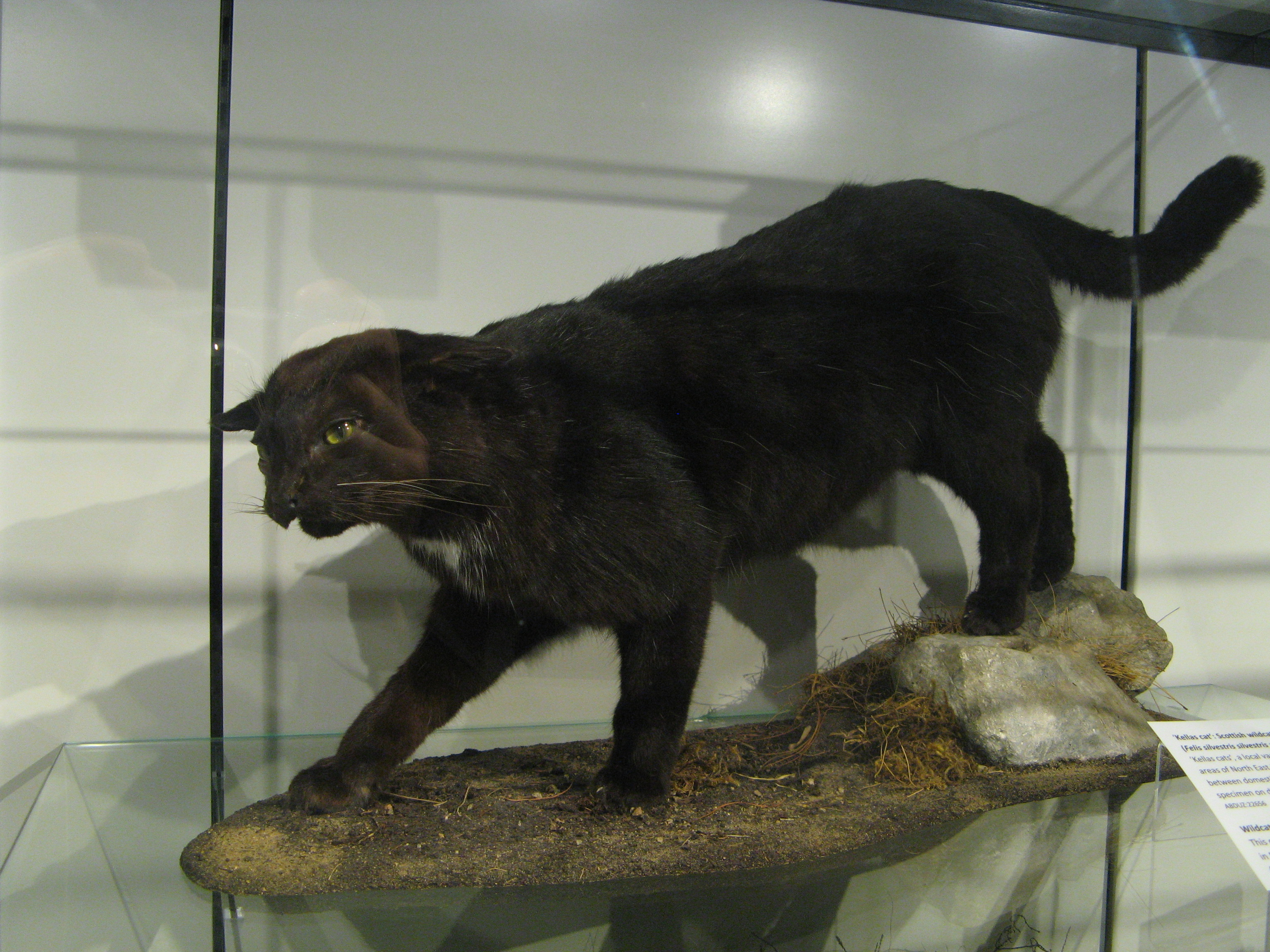 Kellas cat found in Aberdeenshire; on display in the Zoology Museum, University of Aberdeen.